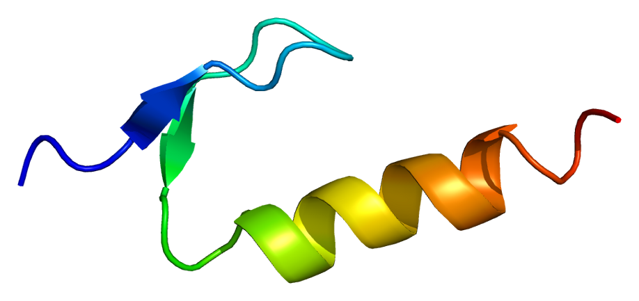 Structure of the POLH protein. Based on PyMOL rendering of PDB 2i5o.